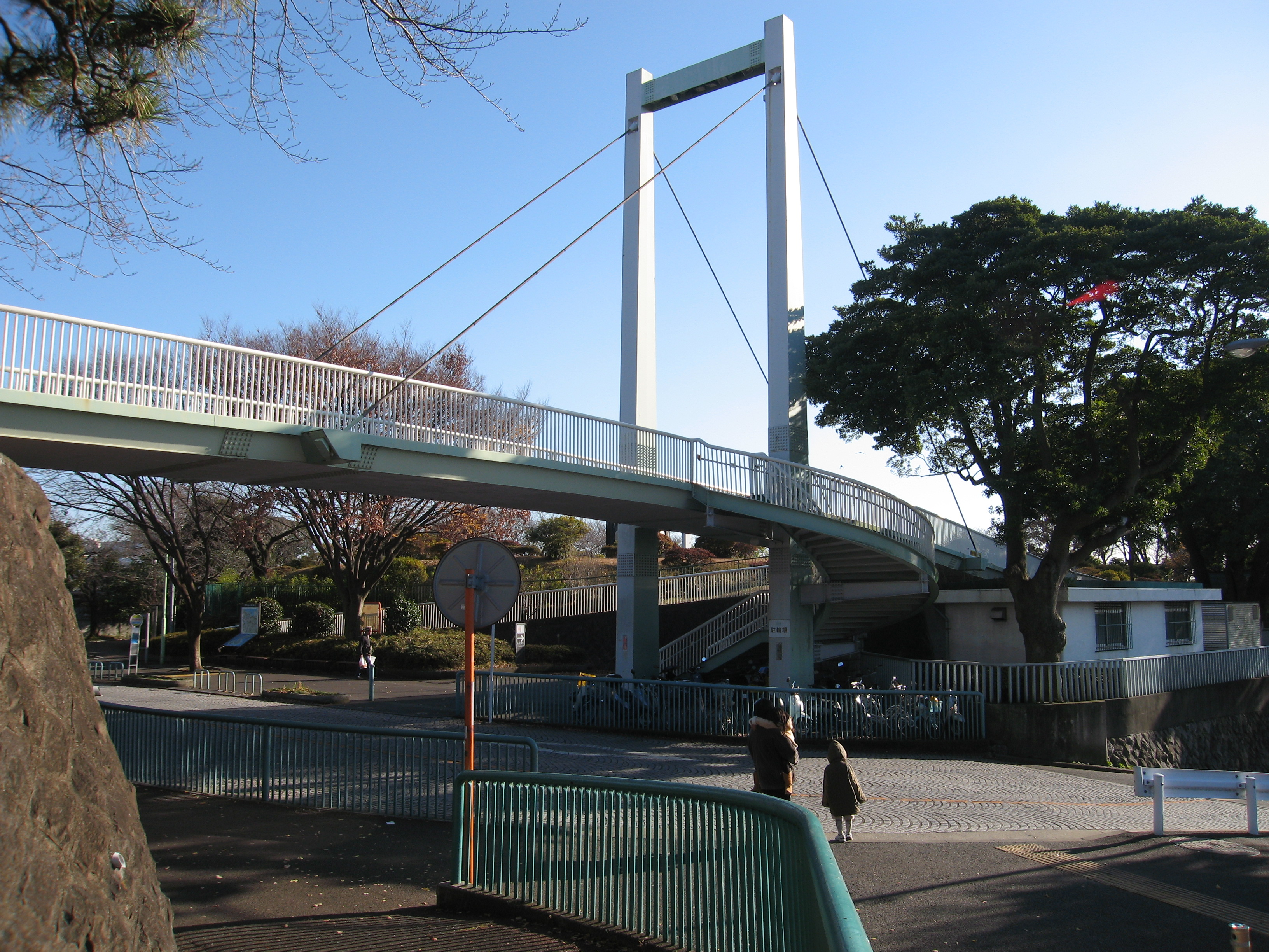 "The Nogeyama Suspension bridge (Footbridge)" (design by Sori Yanagi 1970) , Yokohama, Japan